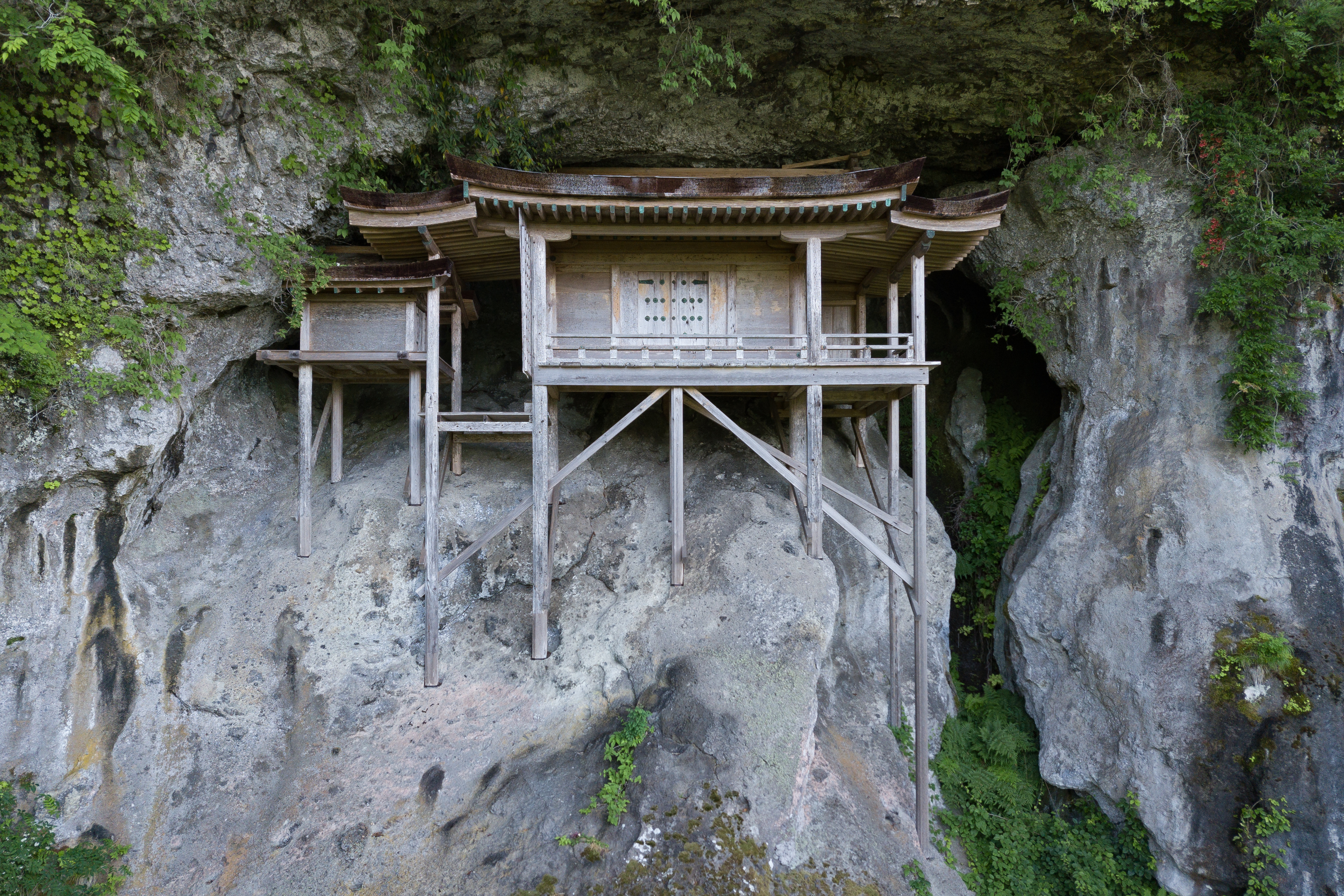 Nageire-dou, Tottori Prefecture